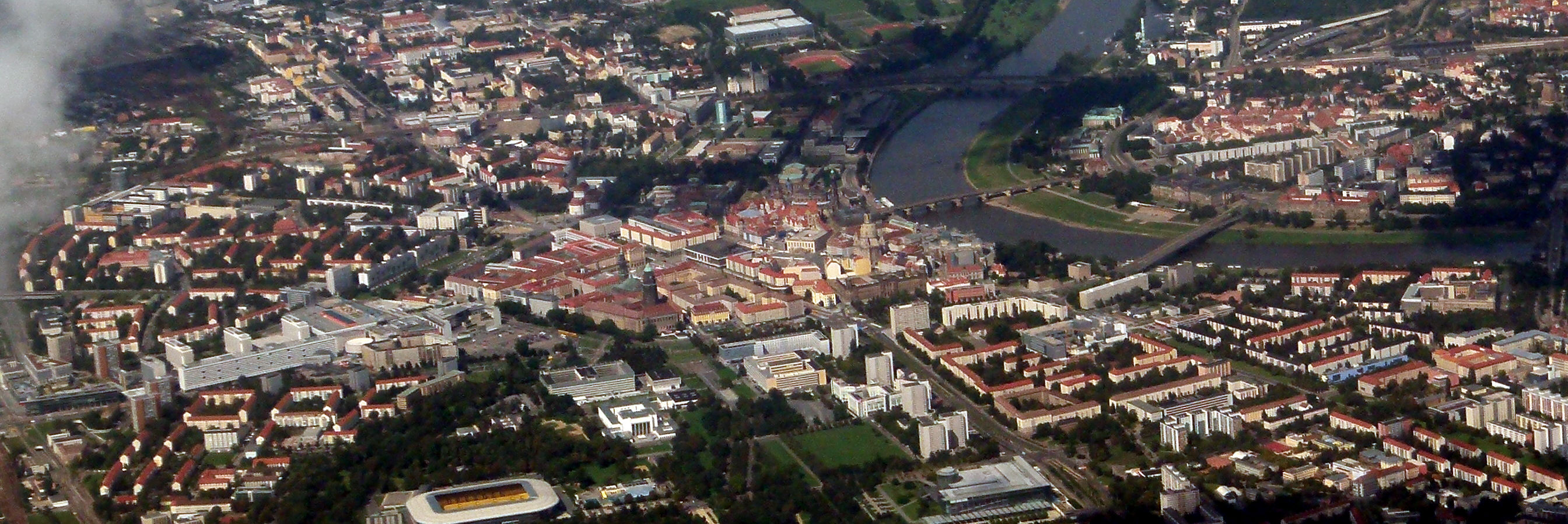 Aerial view of Dresden Old town "Altstadt I"